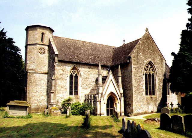 St Nicholas, Fyfield Grade 2* listed building erected in the 13th century.